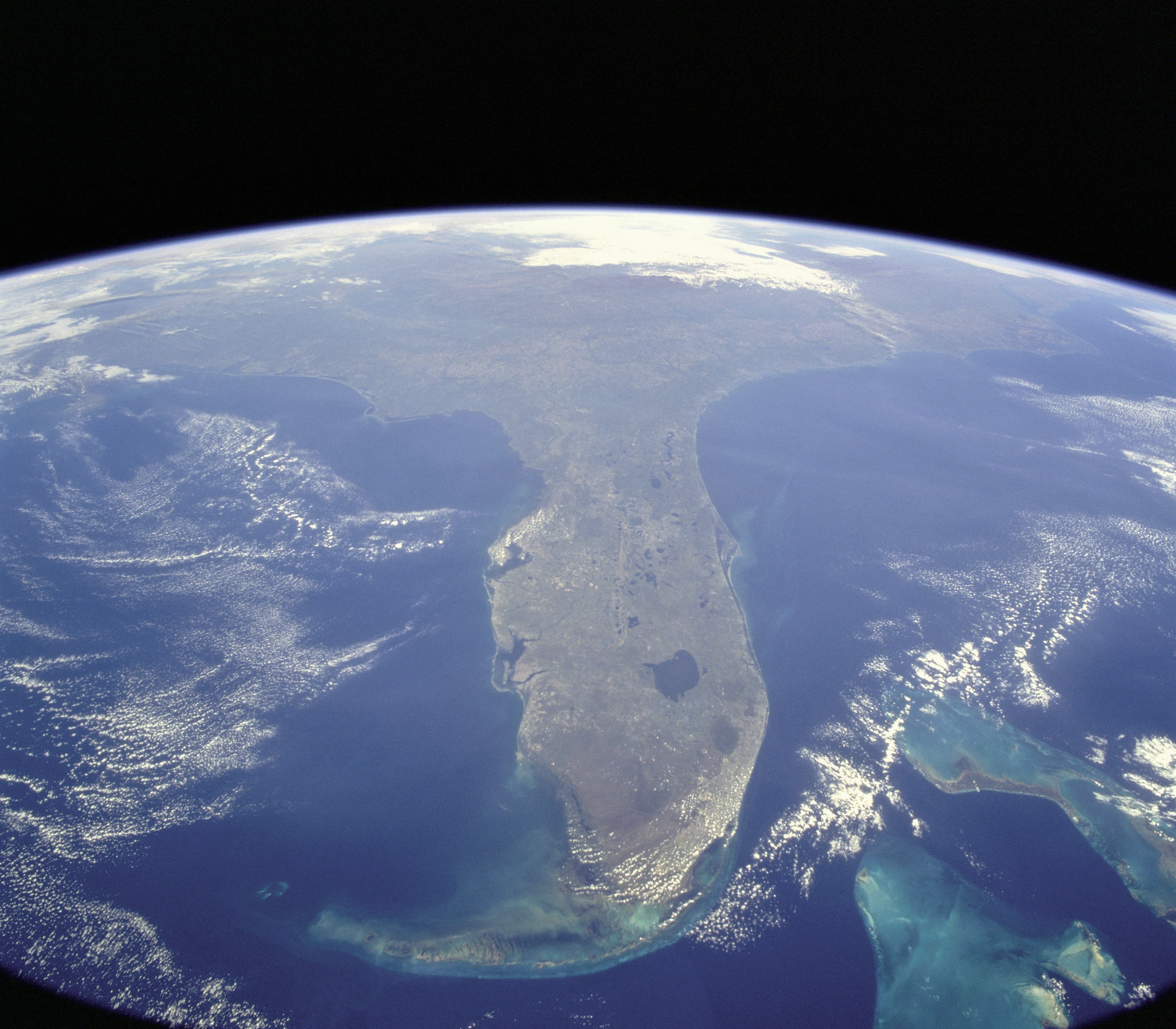 Florida, USA, taken from Shuttle Mission STS-95 on 31st October 1998. Taken during the STS-95 mission from a point over Cuba, this photo shows an oblique view of the Florida Peninsula, with the light blue, shallow seafloor of both the Florida Keys (curving across the bottom of the view) and the Bahama banks (right). Cumulus cloud covers Miami and the Southern Everglades, although the built-up area from Ft. Lauderdale to West Palm Beach can be discerned. Lake Okeechobee is the prominent waterbody in Florida. Cape Canaveral is shown well, half way up the peninsula. Orlando appears as the lighter patch west (left) of Cape Canaveral, near the middle of the peninsula. Cape Hatteras appears top right, with the north part of Chesapeake Bay also visible.